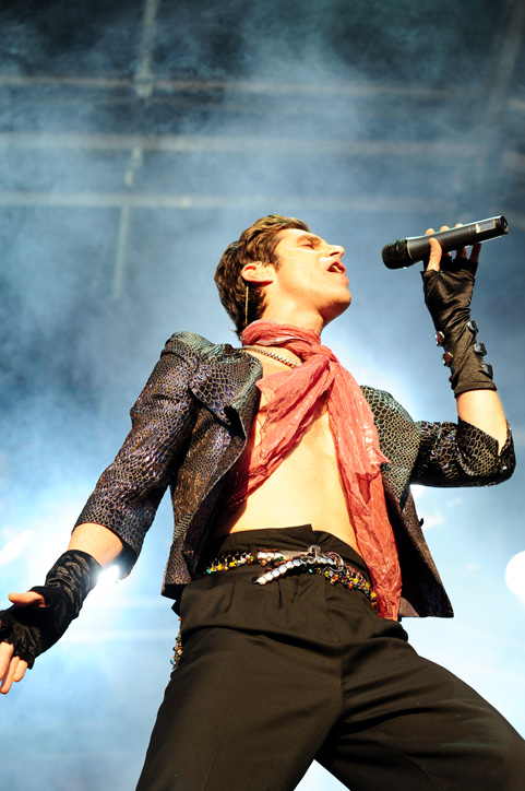 Soundwave Festival 2010